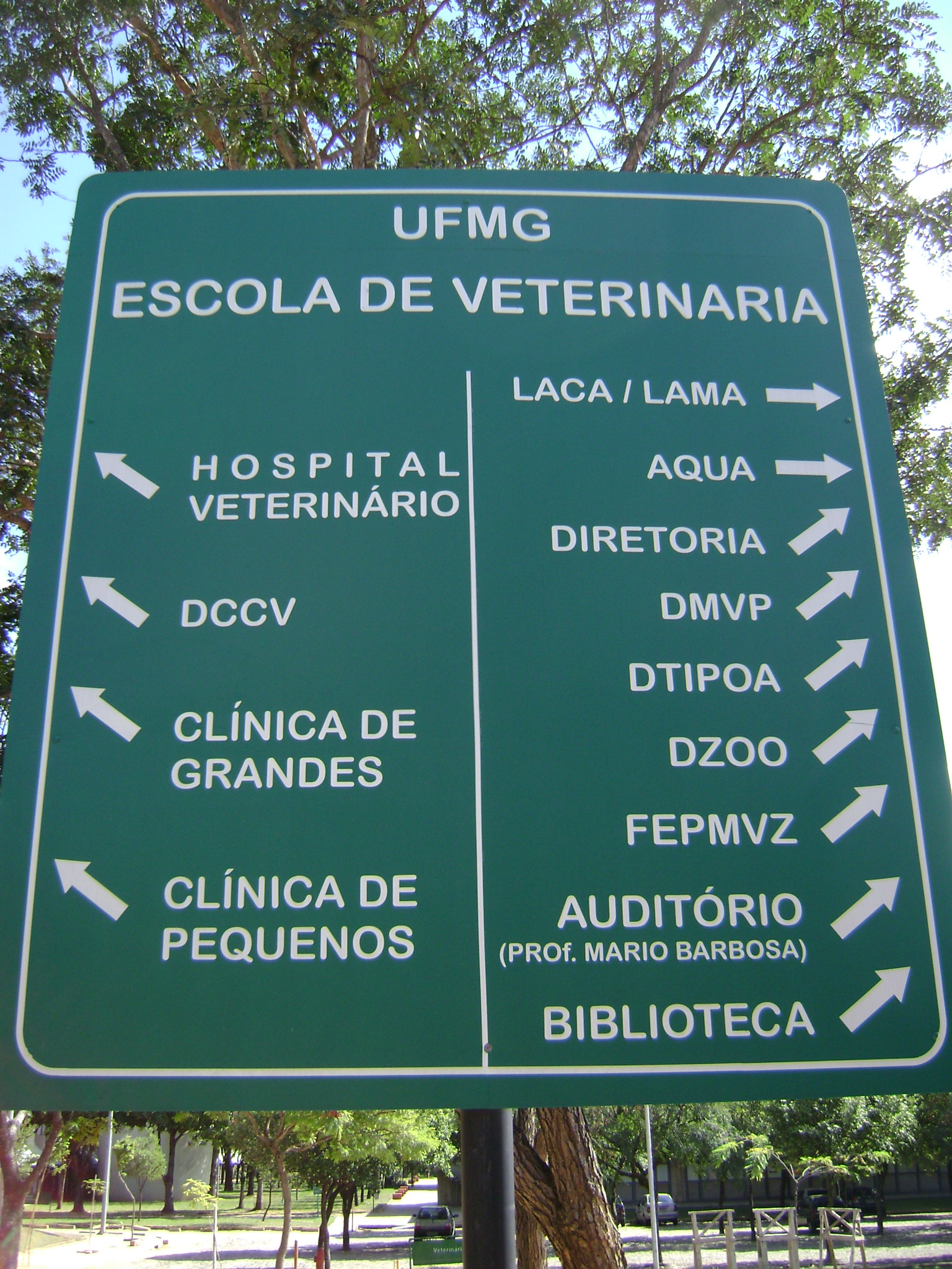 Placa na entrada da Faculdade de Veterinária da UFMG.